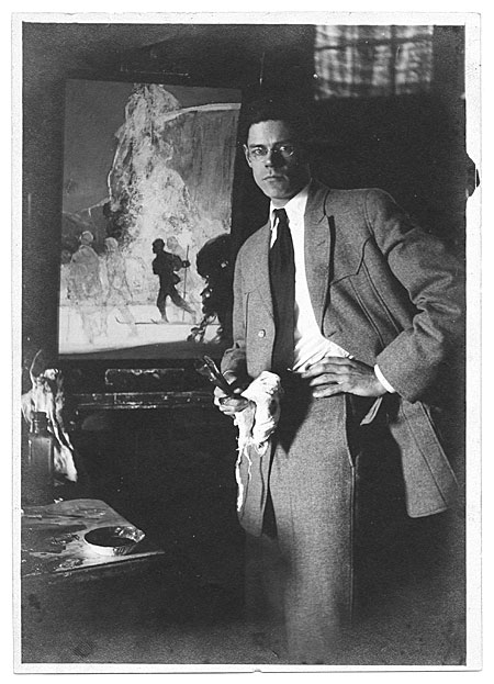 Photo of Charles Chapman in his studio, c. 1920